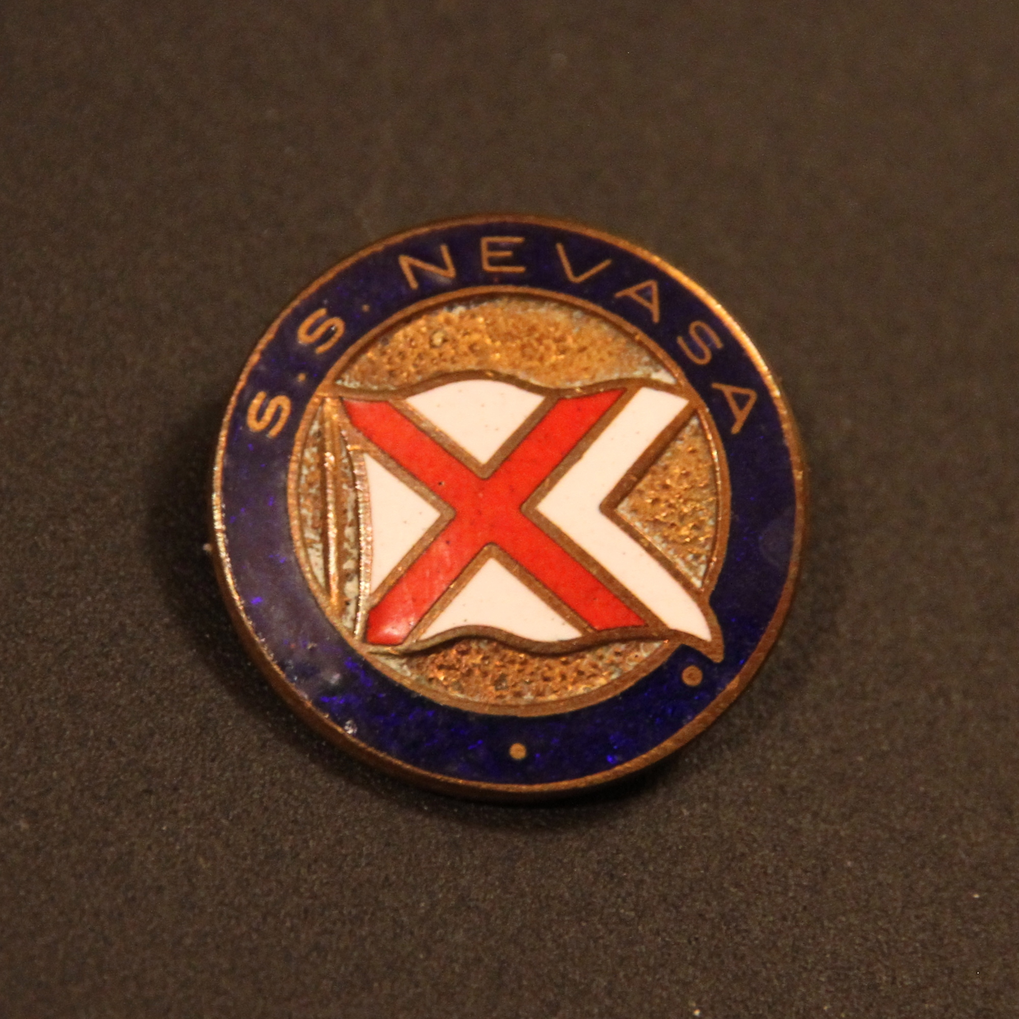 Enamelled badge that the British India Steam Navigation Co issued to a child passenger on the educational cruise ship Nevasa in the 1970s